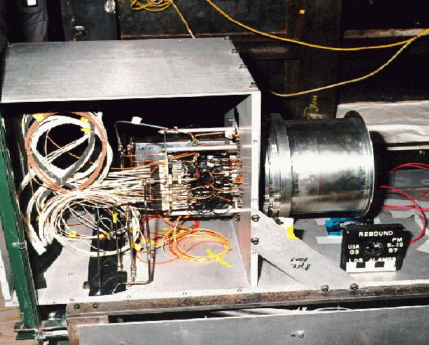 Rebound, the first subcritical experiment at the Nevada National Security Site, is assembled at the U1a Facility.